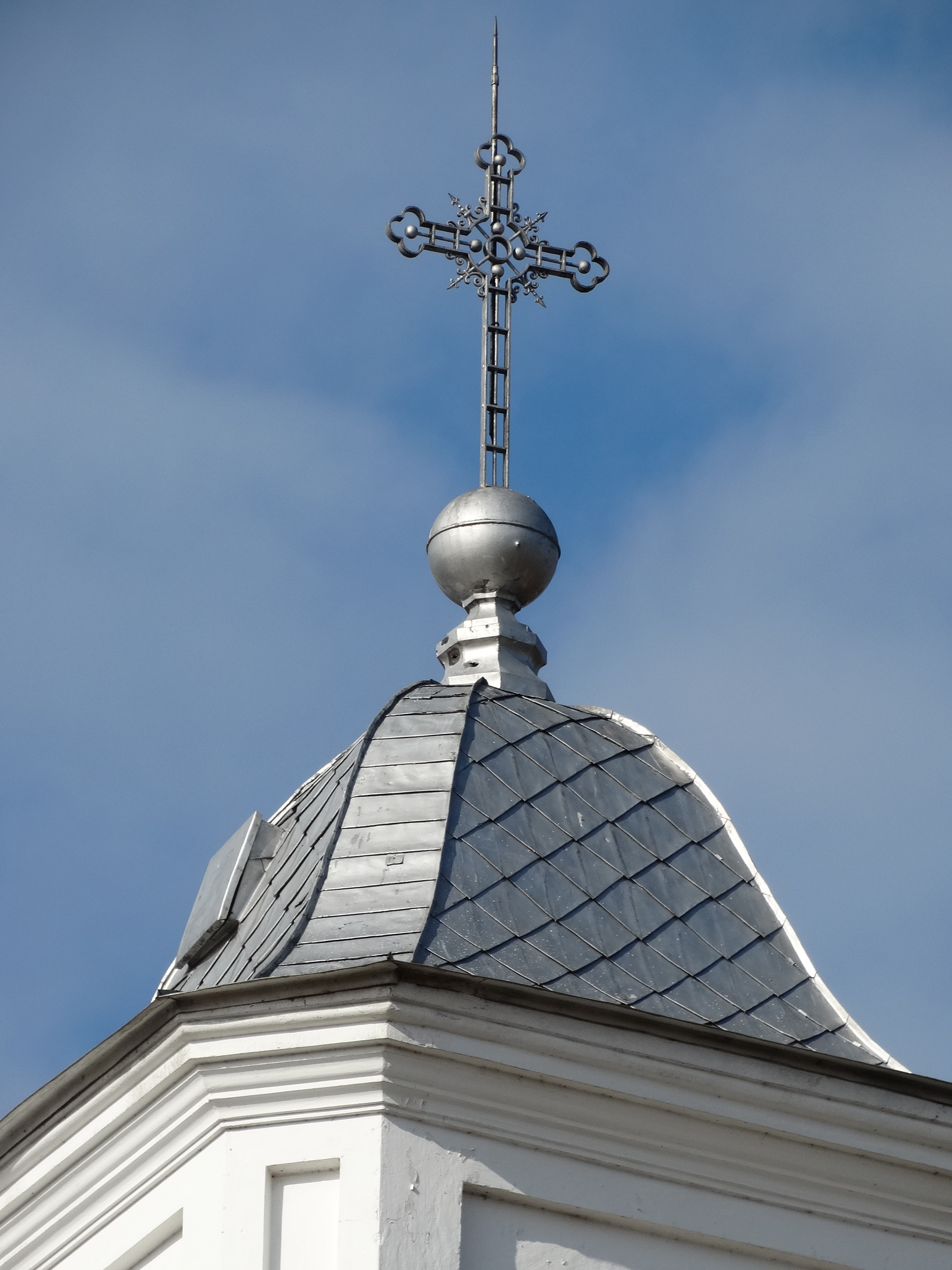 Church tower cross, Lazdijai, Lithuania